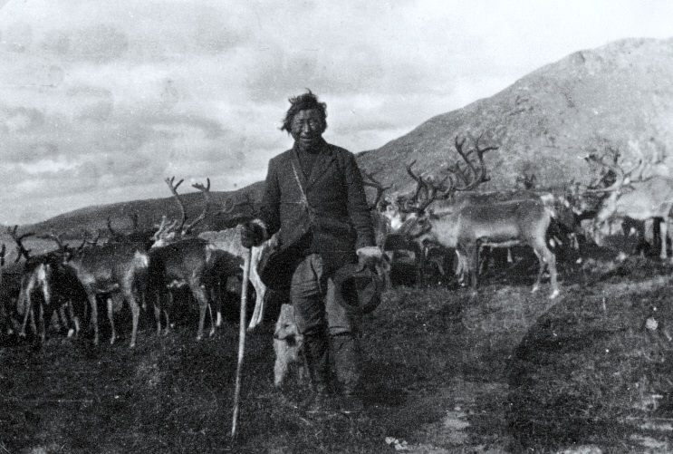 Photograph, Inuit man with herd of imported Lapp reindeer, Amadjuak, NU, 1922, Frederick W. Berchem, Silver salts - Gelatin silver process - 11.7 x 16 cm